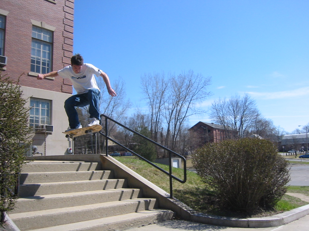 Man doing an Ollie over the stairs.